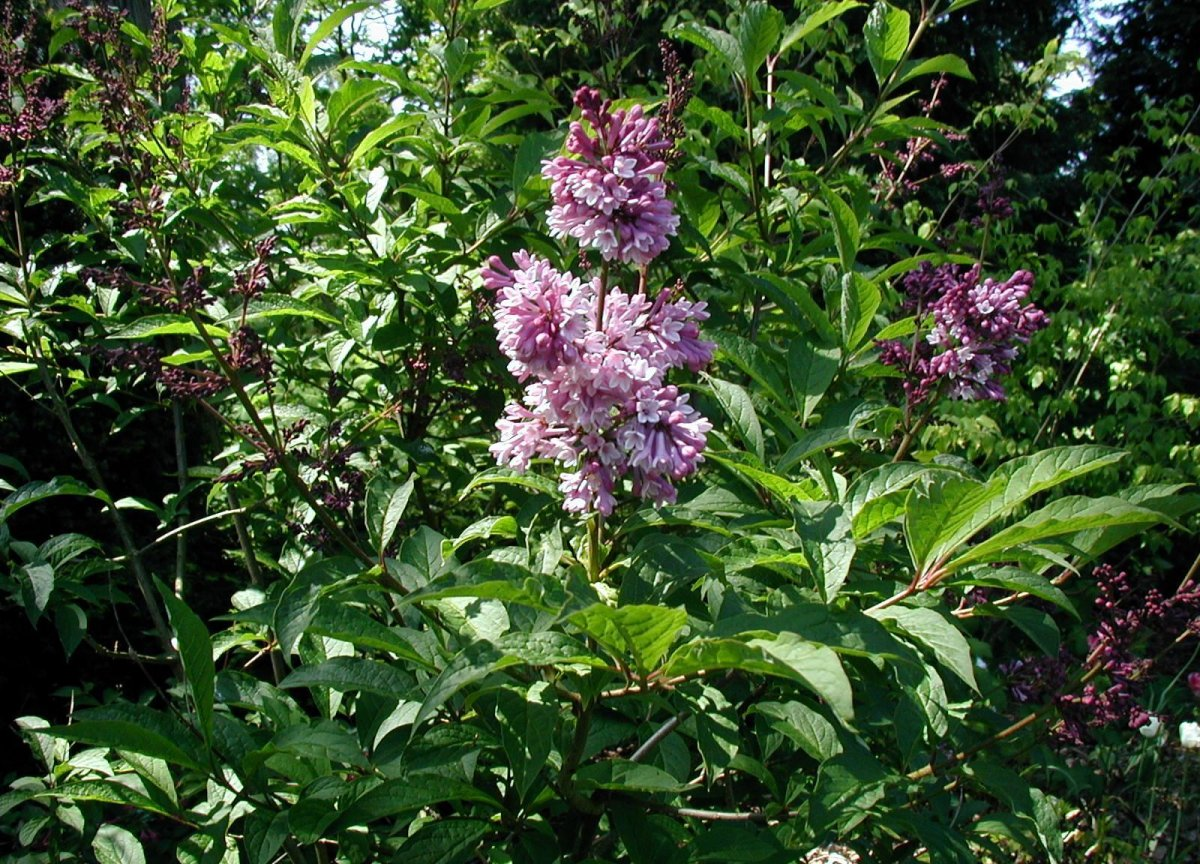 Syringa josikaea: Flowering plant. Photo: Sten Porse